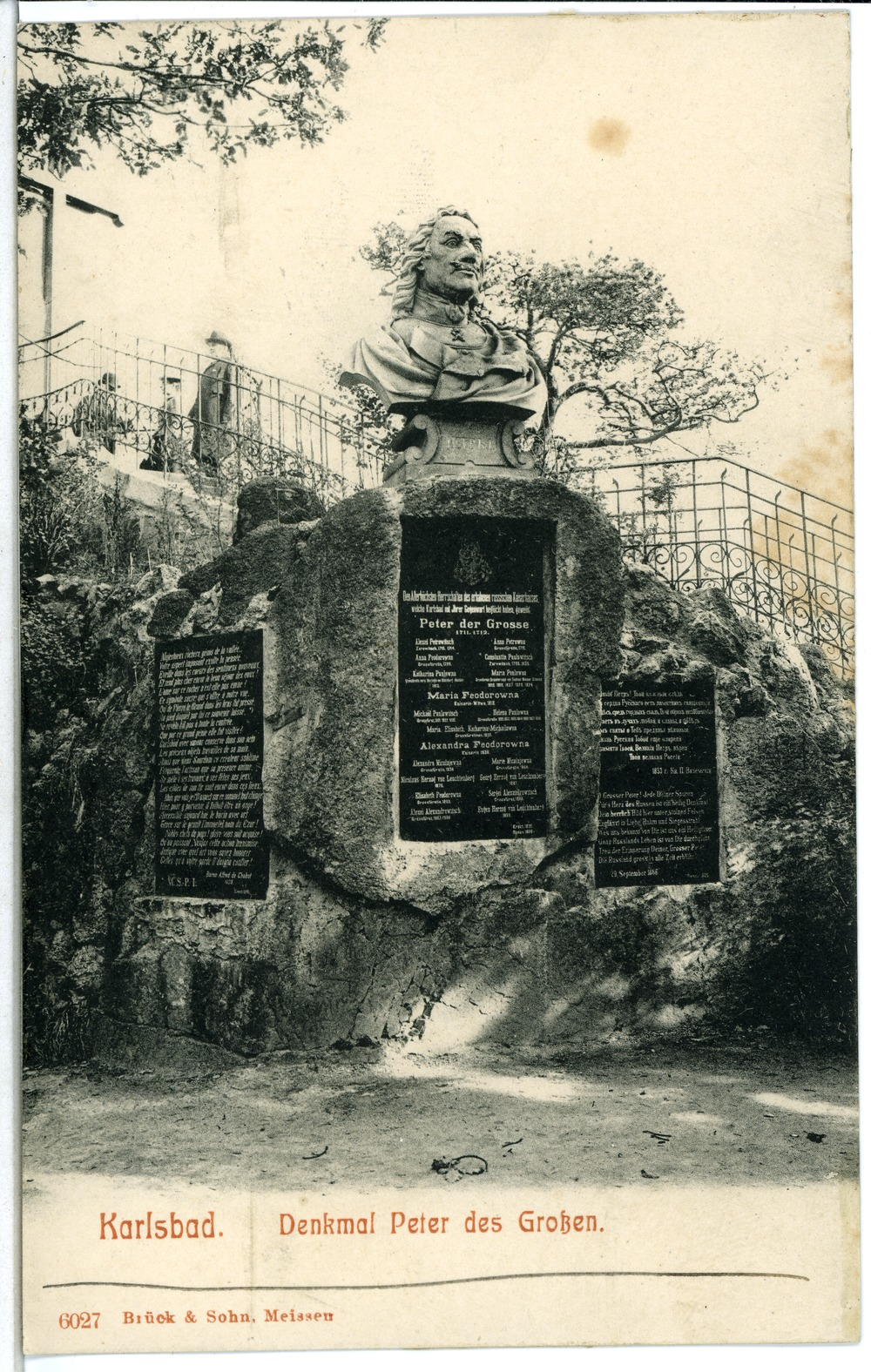 This postcard is from publisher Brück & Sohn in Meißen ( This postcard has a unique number 06027 and is available in a higher resolution at the publisher. This images was uploaded in a cooperation project between Wikipedians and the publisher.